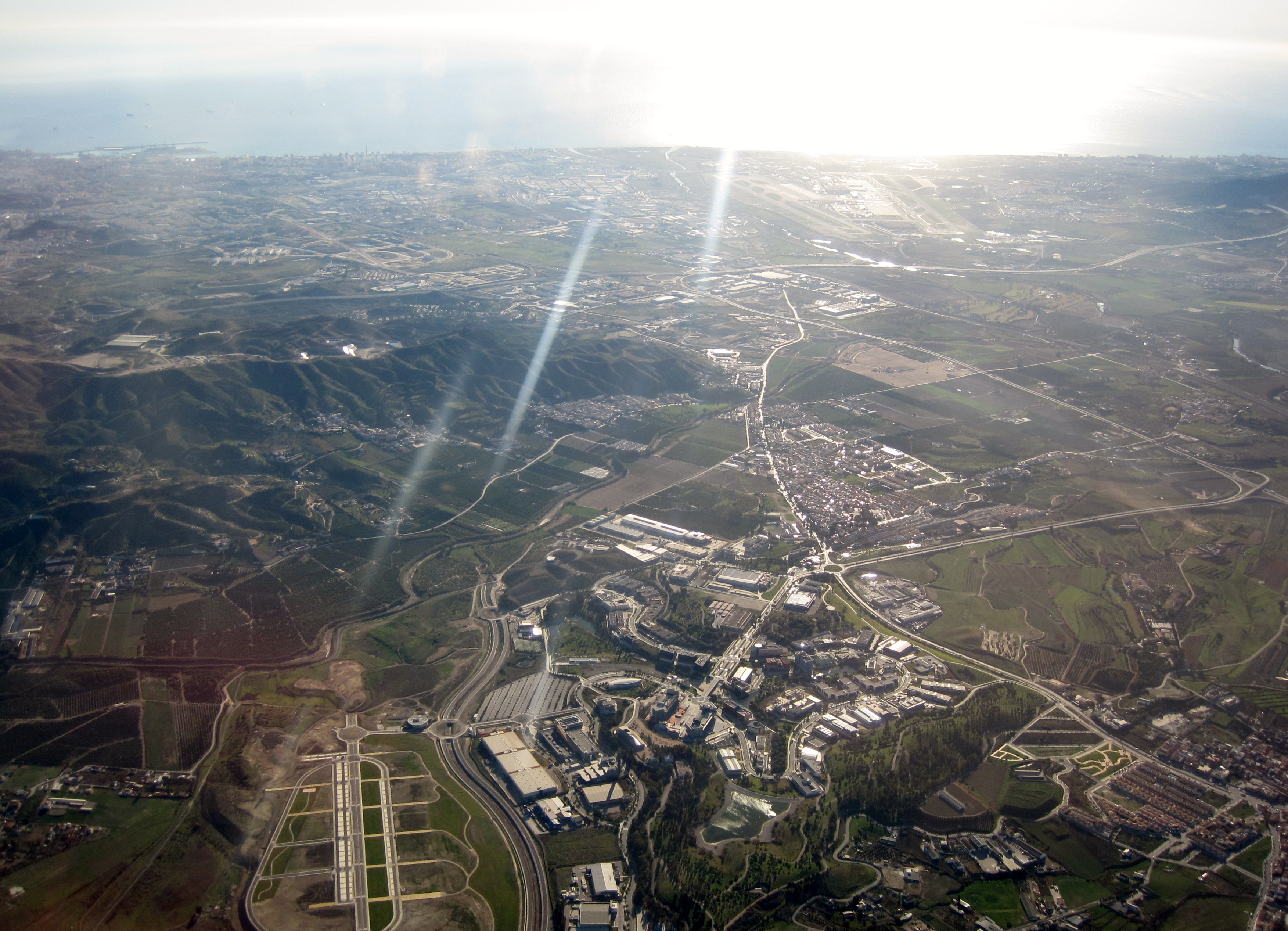 Parque Tecnológico de Andalucía, Málaga Airport, University of Málaga, west Málaga (Spain), view from a plane